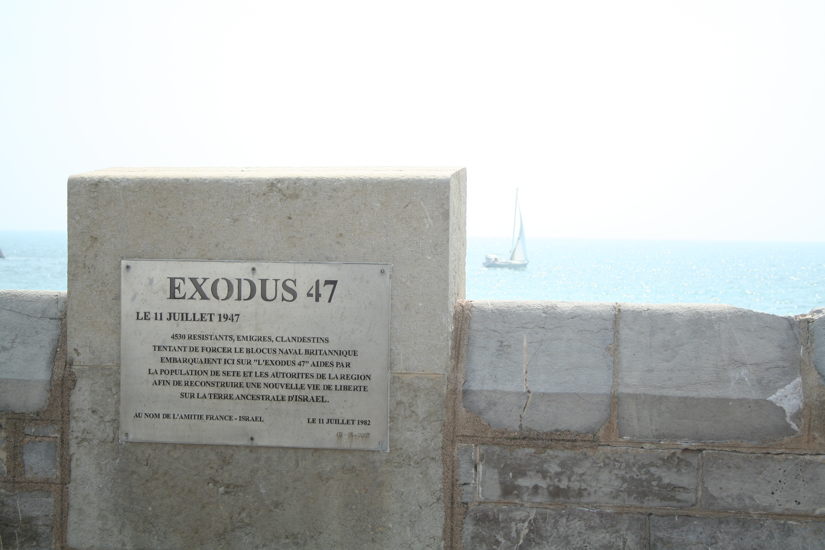 a memorial for the ship "Exodus" in the harbor of Sète, France.